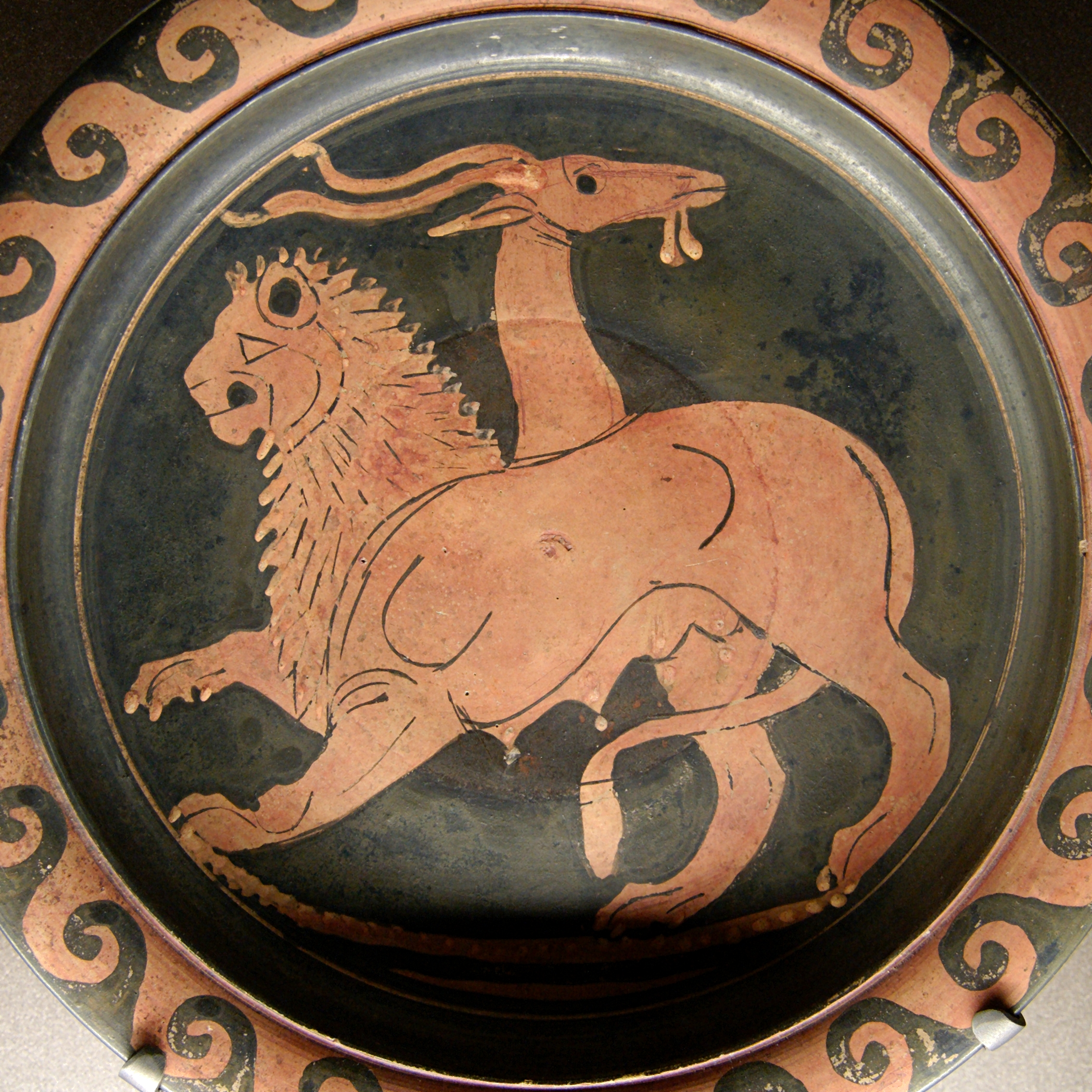 Chimera. Apulian red-figure dish, ca. 350-340 BC.